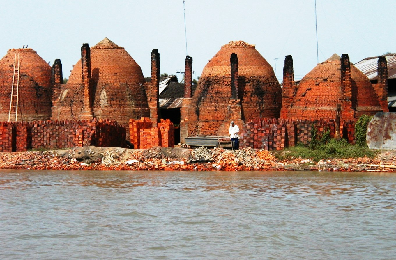 Simple Brick Kiln on the bank of Song Hau, a branch of Mekong in Vietnam.